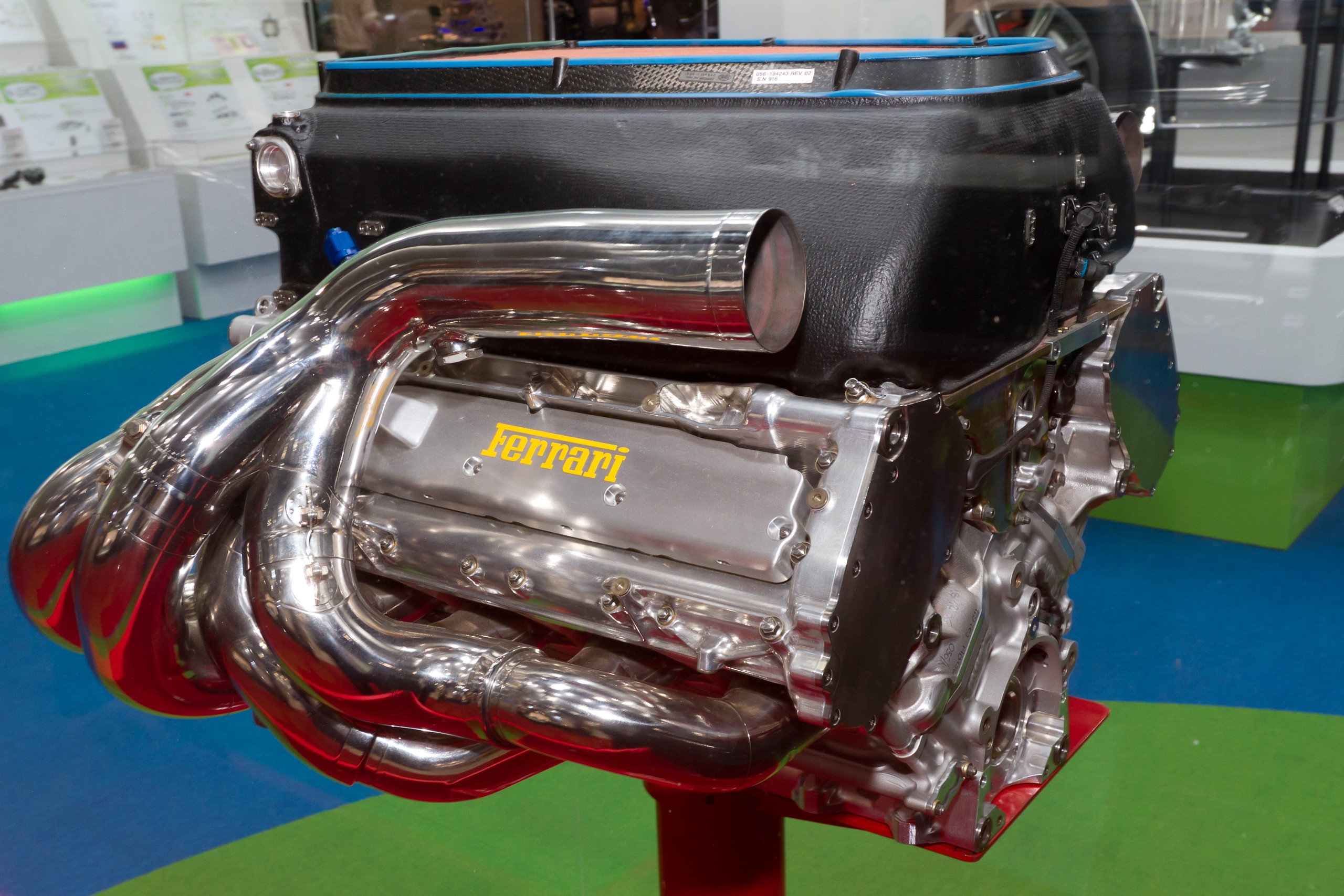 Tokyo Motor Show 2011: Ferrari 056 engine (2007)